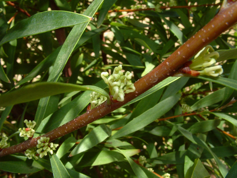 Hakea salicifolia (Willow-leaved Hakea) in flower. Taken in New South Wales, Australia.